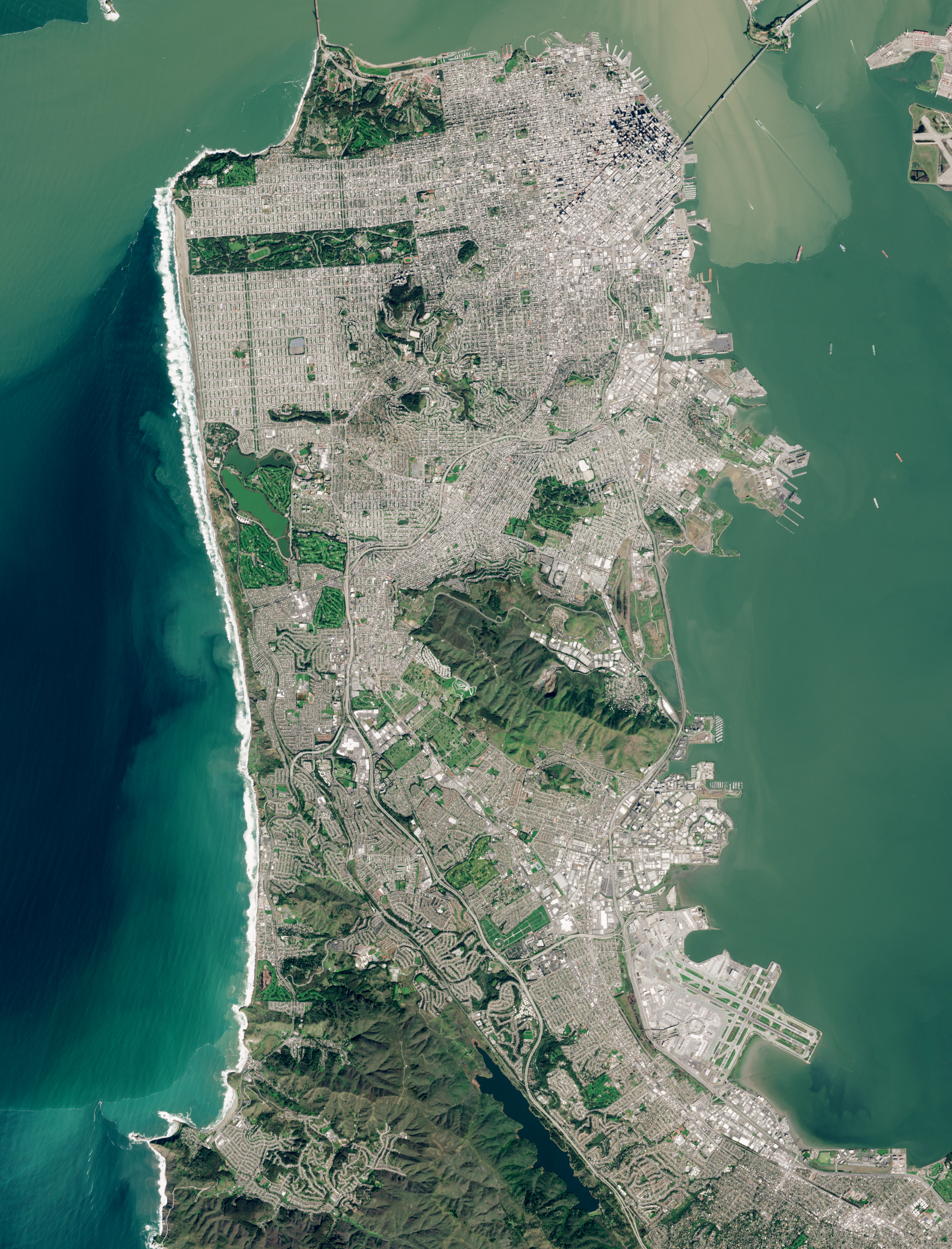 Date: 2019-03-11 Sensor: MSI on Sentinel-2A Resolution: 10m RGB Composites: True color, Band 4-3-2